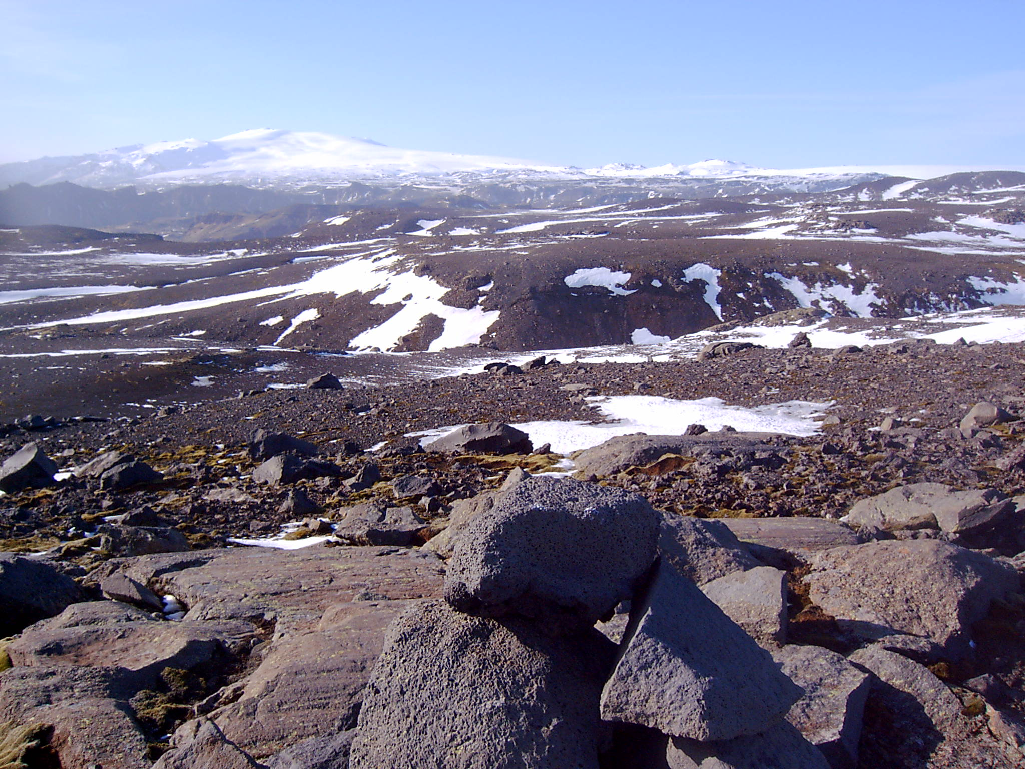 View of Eyjafjallajökull from a recreation area on the Sólheimajökull, a glacier on the nearby Katla Volcano